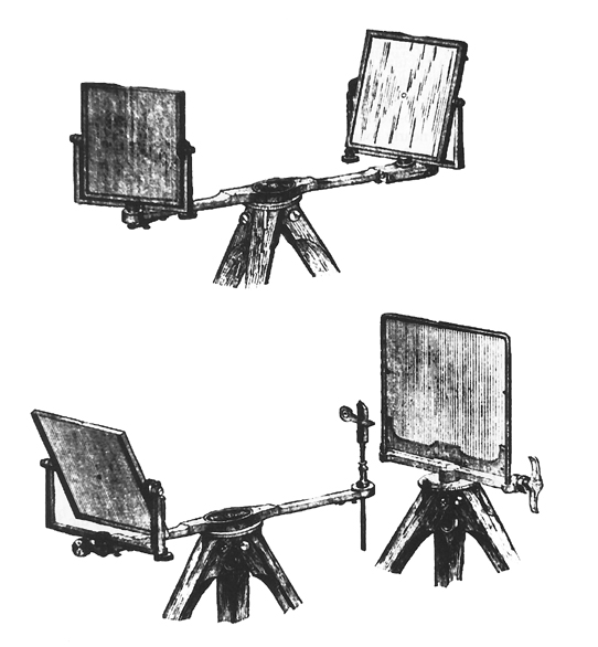 U.S. SIGNAL SERVICE HELIOGRAPH. Clockwise from top, HELIOGRAPH WITH TWO MIRRORS, SUN IN REAR; SCREEN MOUNTED ON TRIPOD; HELIOGRAPH WITH ONE MIRROR AND SIGHTING ROD, SUN IN FRONT.